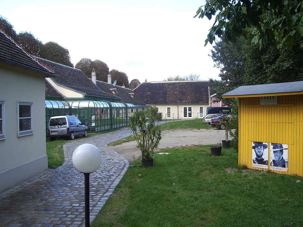 The Film Archiv Austria, located at the Viennese Augarten